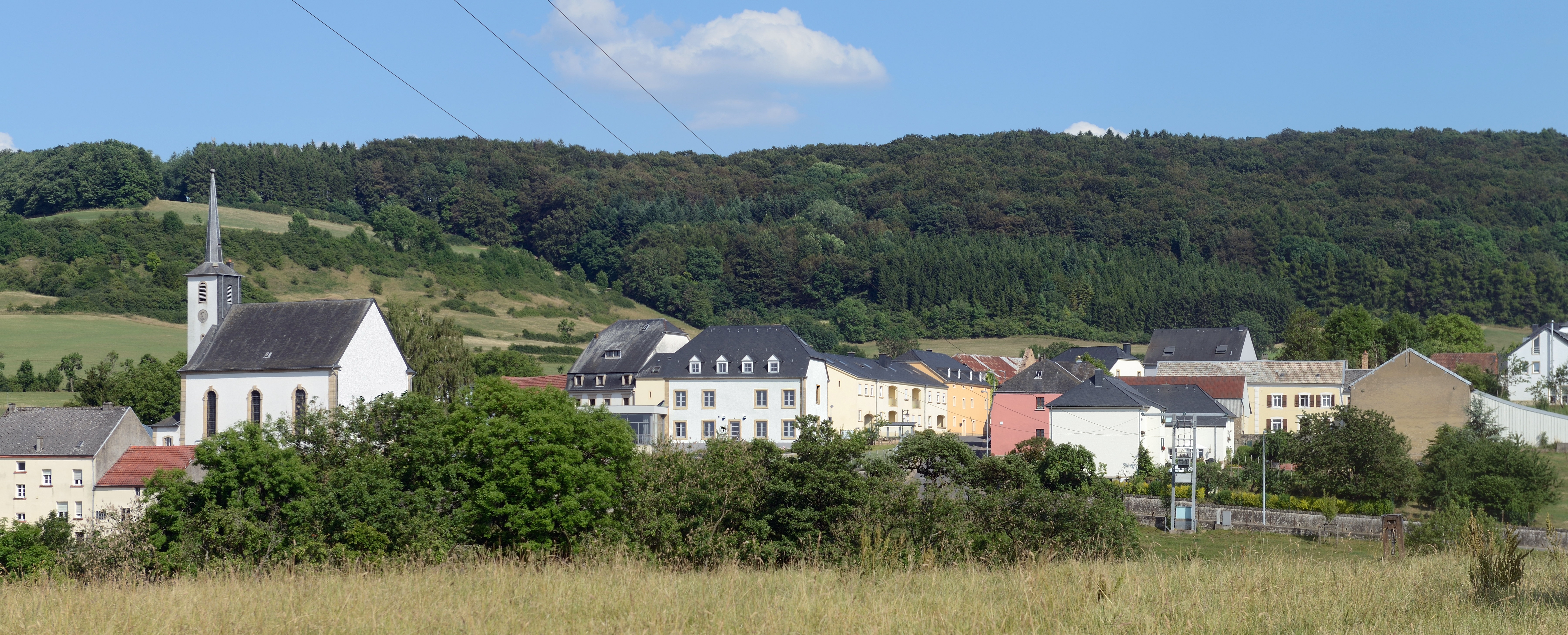 Eppeldorf, Luxembourg, in 2014.